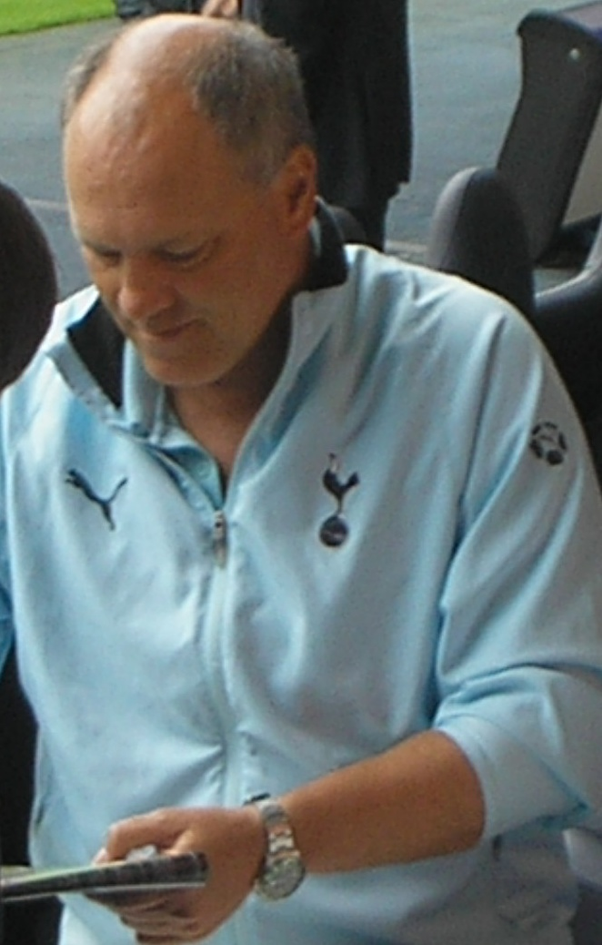 Martin Jol